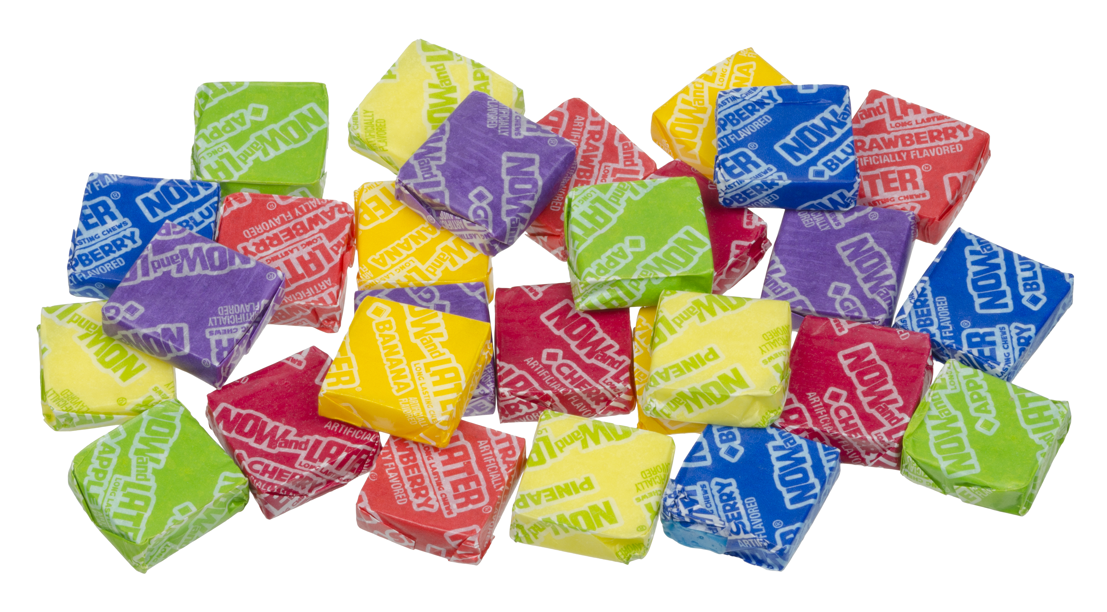 Assorted flavors of Now and Later candies, a chewy taffy made by Farley's and Sathers and sold in the United States.